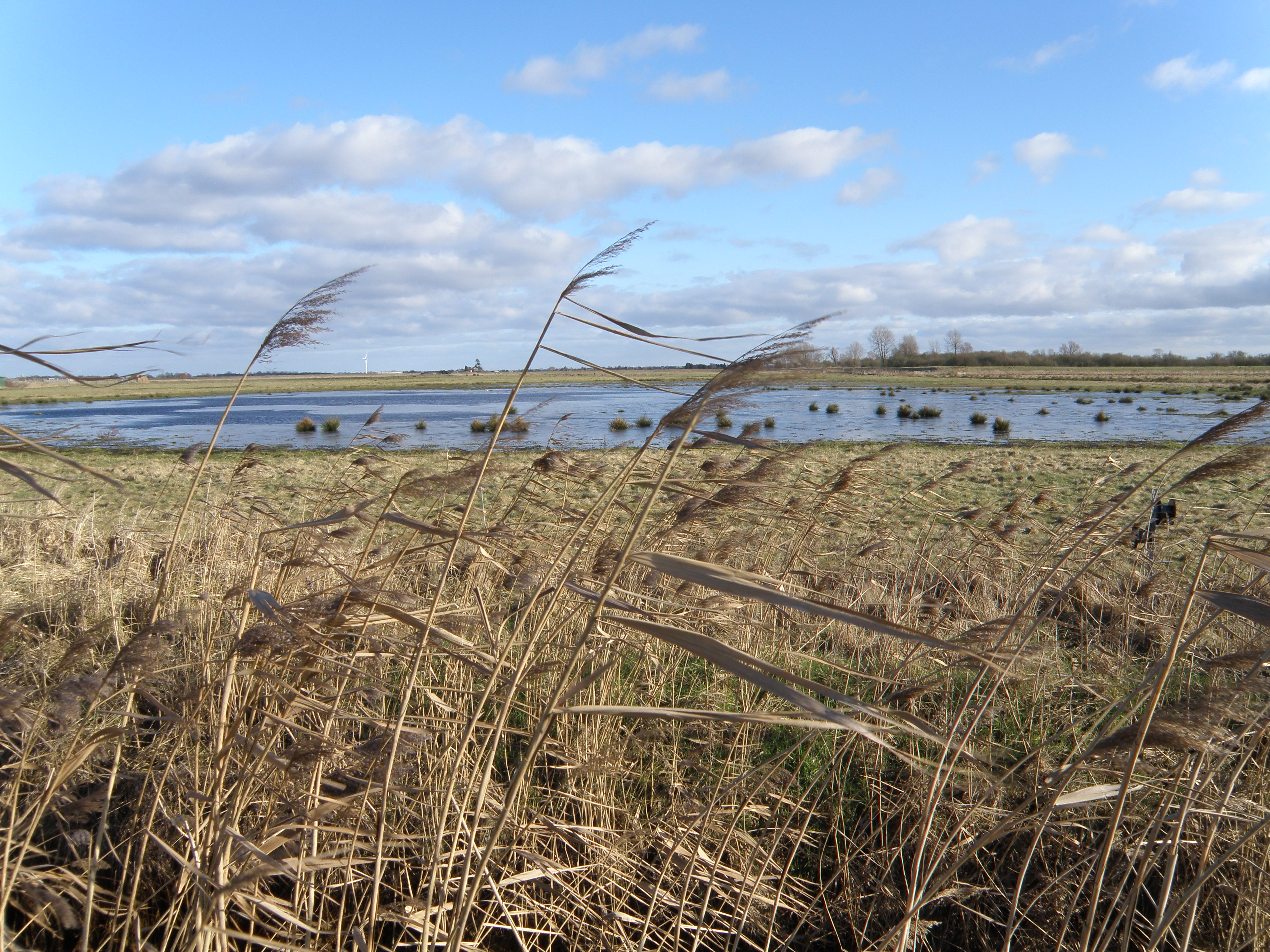 Fields in The Great Fen Project A large part of Woodwalton Fen is destined to be part of the Great Fen Project Some of the land is already in conversion. The water levels have been allowed to rise to attract wading birds and other wetland wildlife.